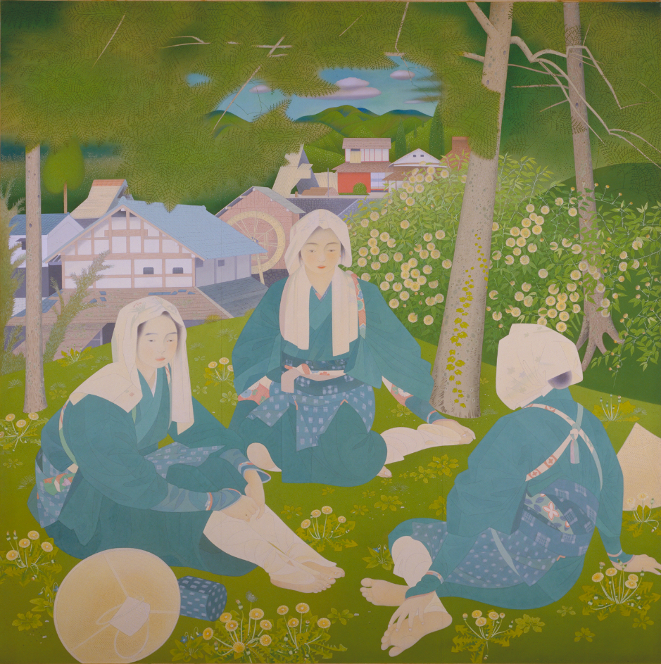 Tsuchida Bakusen: Oharame, 1927. Ink and color on silk, 213x215 cm. National Museum of Modern Art, Kyoto.